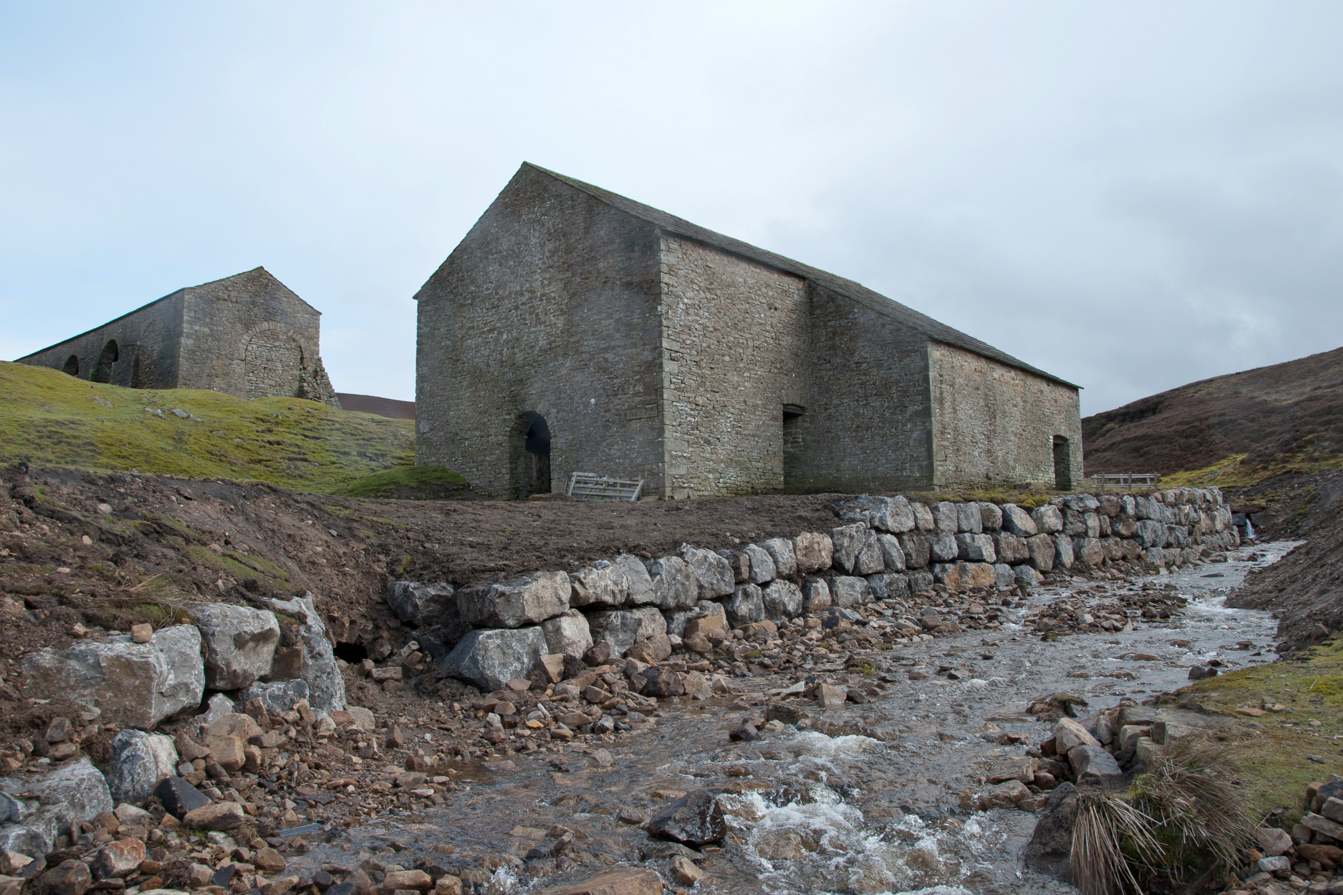 Grinton Smelt Mill post 2019 flooding